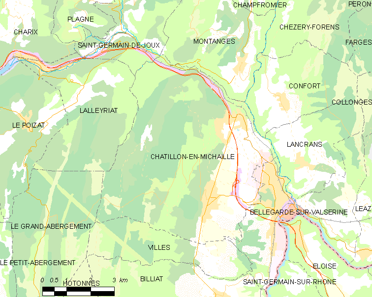 Map of French commune: Châtillon-en-Michaille Map commune FR insee code 01091.png